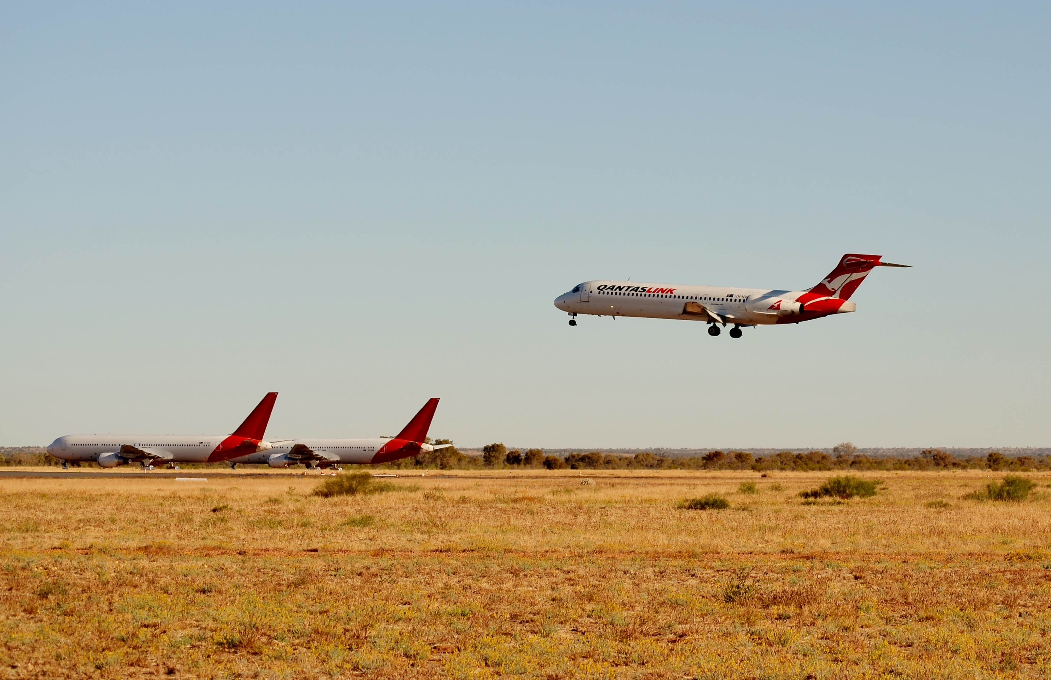 QantasLink Boeing 717-231 VH-NXN on its final approach to Alice Springs Airport with QF 1938 from Perth. The airliners on the ground in the background are in storage at the Alice Springs aircraft boneyard.